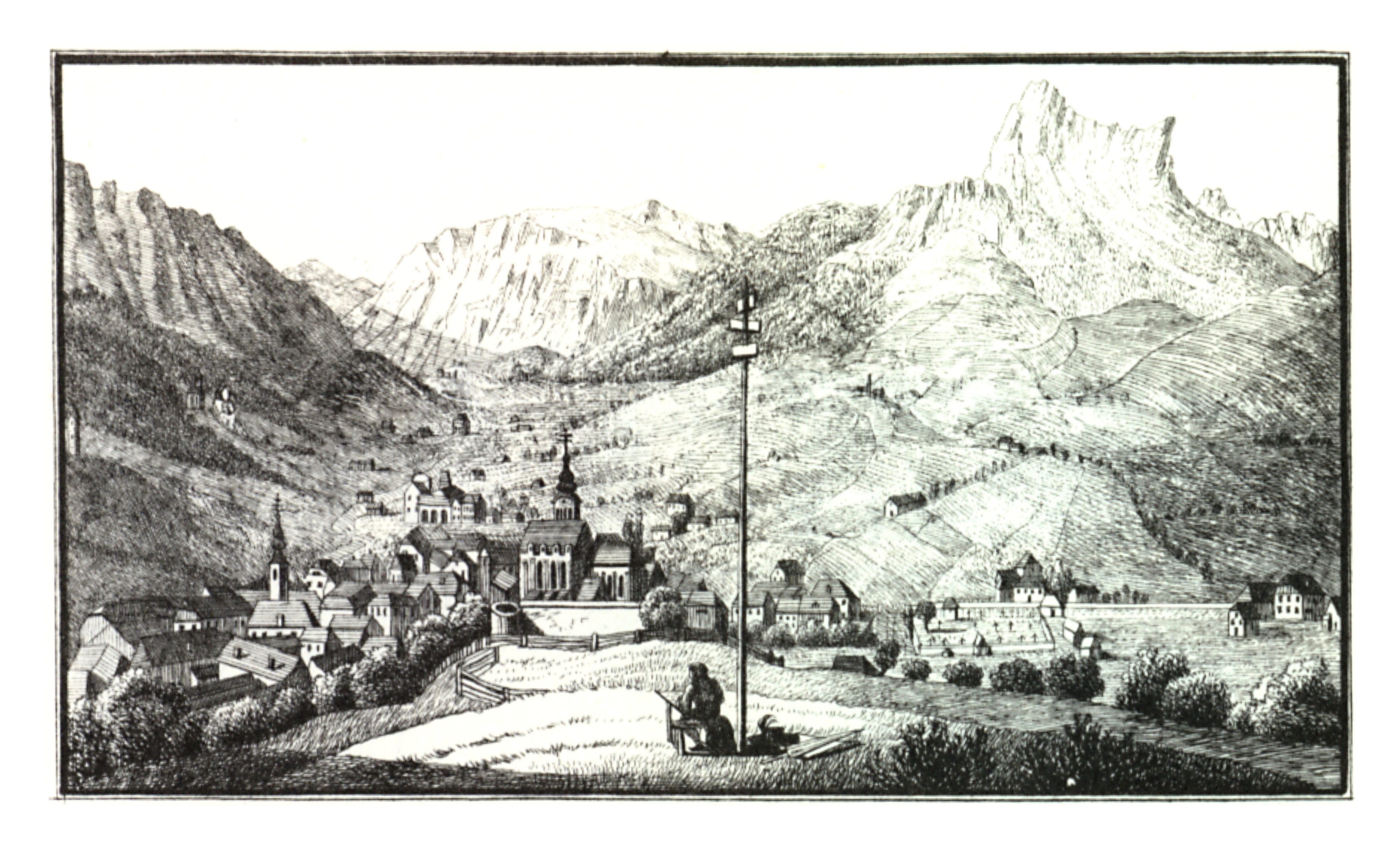 J. F. Kaiser - lithographirte Ansichten der Steyermärkischen Städte, Märkte und Schlösser Graz, 1825 Scanprojekt Community Projektbudget 2012 This scan or this PDF-file was created within the GLAM-project Bookscanning, supported by Wikimedia Germany and Wikimedia Austria as a part of the community-project to capture books, documents and pictures which are not eligible to copyright or for which the copyright has expired. This document describes or depicts an object which is located in Austria today. Send requests for uncompressed scans to Hubertl. This work is in the public domain in its country of origin and other countries and areas where the copyright term is the author's life plus 100 years or less. You must also include a United States public domain tag to indicate why this work is in the public domain in the United States. This file has been identified as being free of known restrictions under copyright law, including all related and neighboring rights.